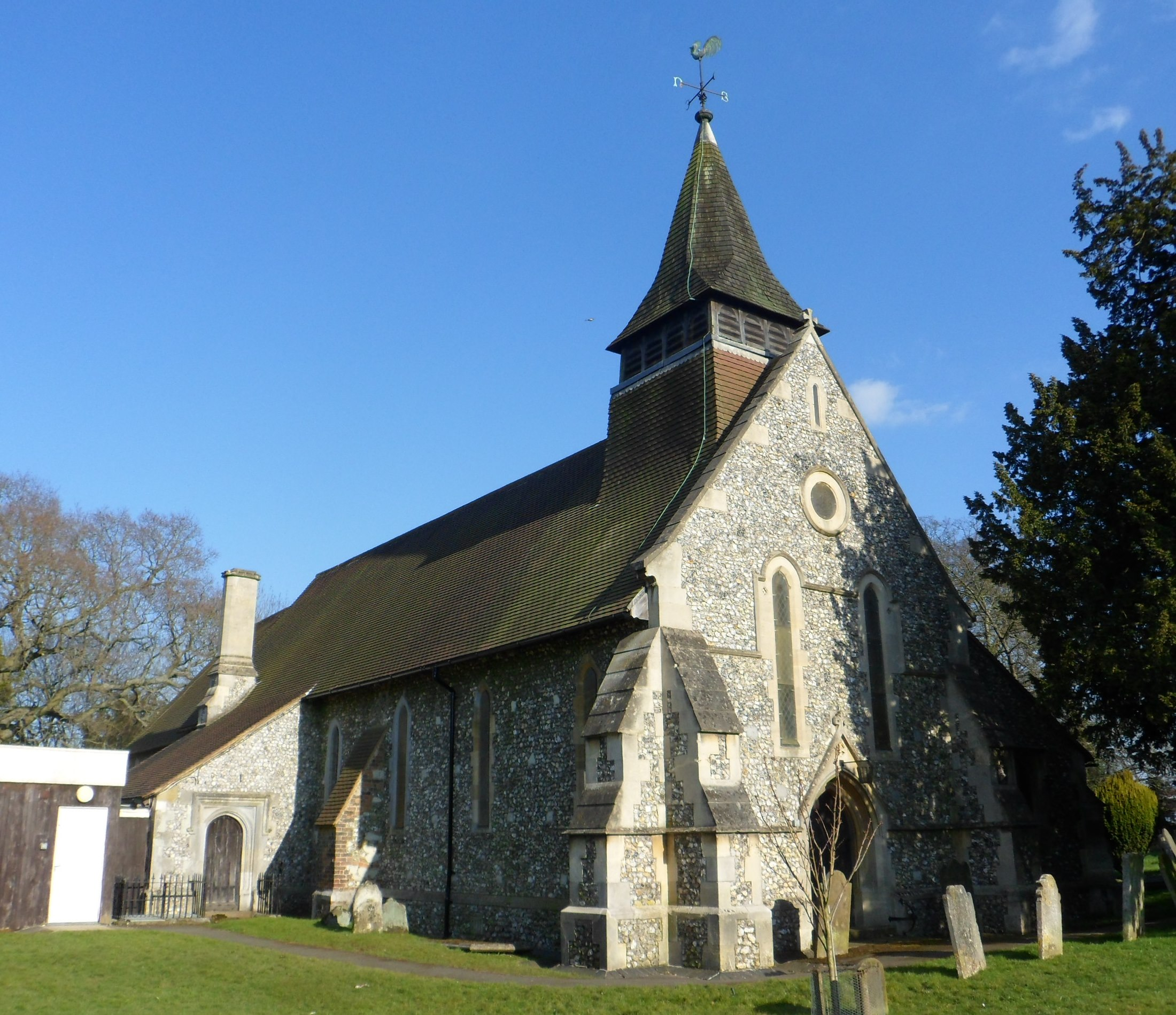 All Saints' parish church, Church Lane, Warlingham, Surrey, England, seen from the west